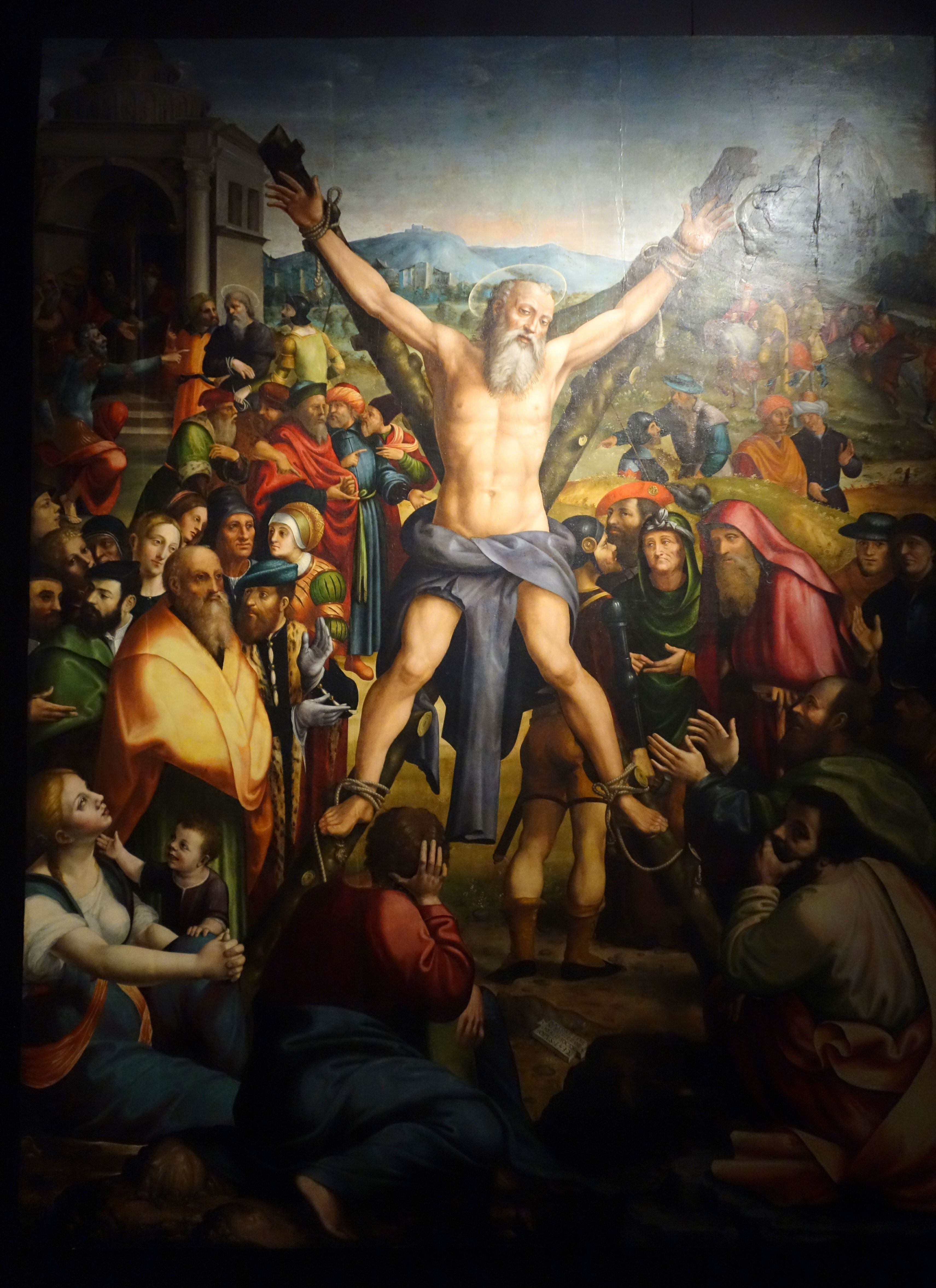 Exhibit in Museo Diocesano, Via Tommaso Reggio, 20 r, Genoa, Italy. All artwork in this museum is old enough so that it is in the public domain.